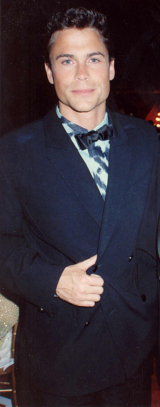 Cropped from original image. Original description read, "Me with Rob Lowe at the Governor's Ball party after the 1989 Academy Awards, March 29, 1989